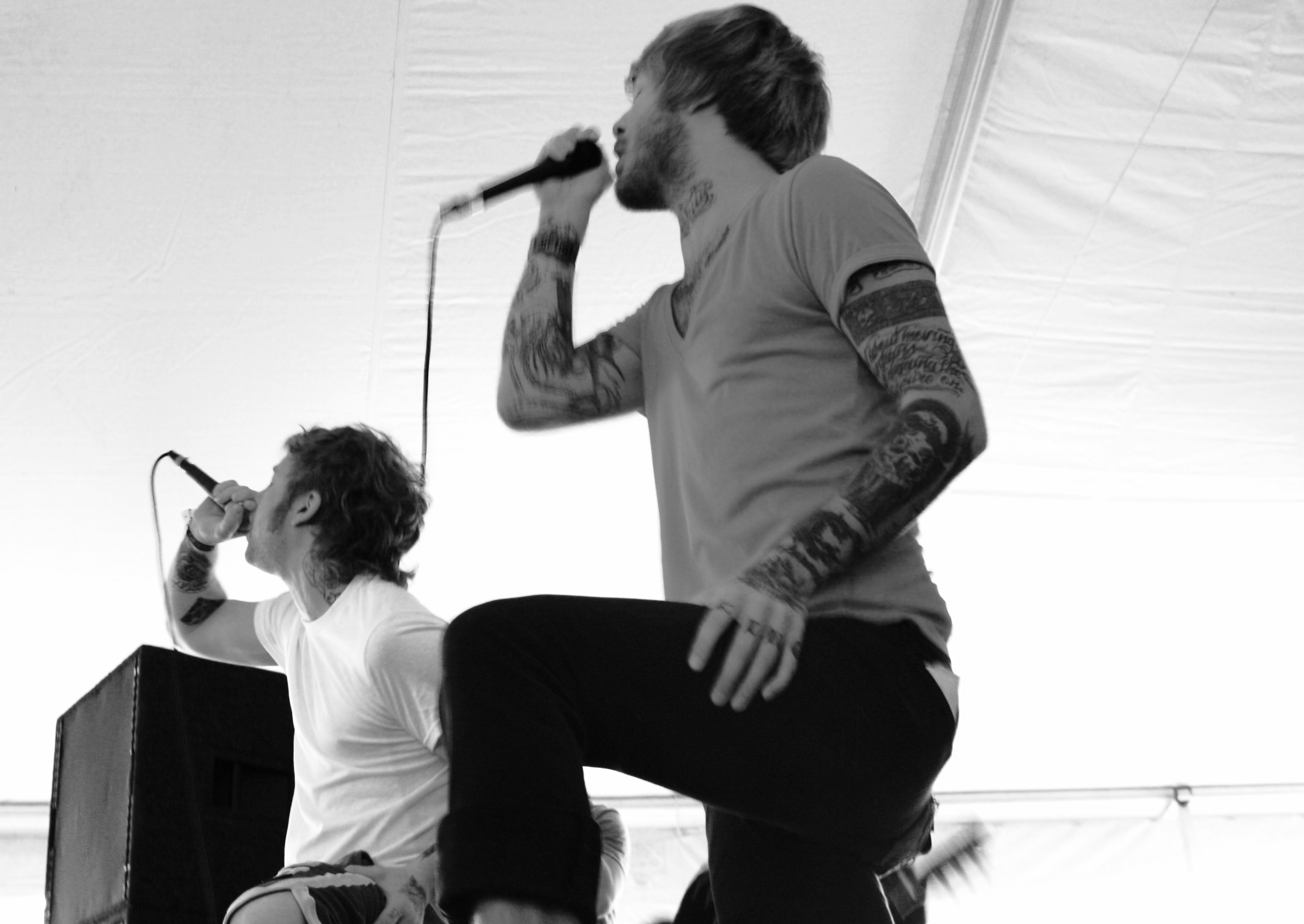 Craig Owens and Jonny Craig of Isles & Glaciers. This was their first show ever as a band performing together at SXSW in Austin, TX.